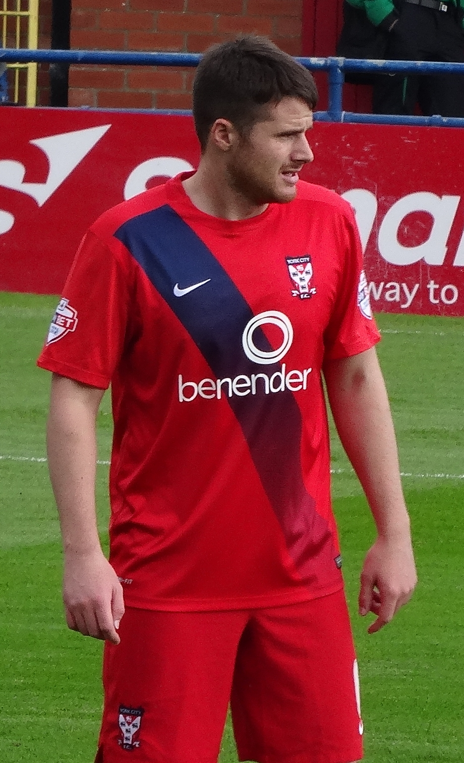 Eddie Nolan playing for York City against Carlisle United at Bootham Crescent, York on 19 September 2015